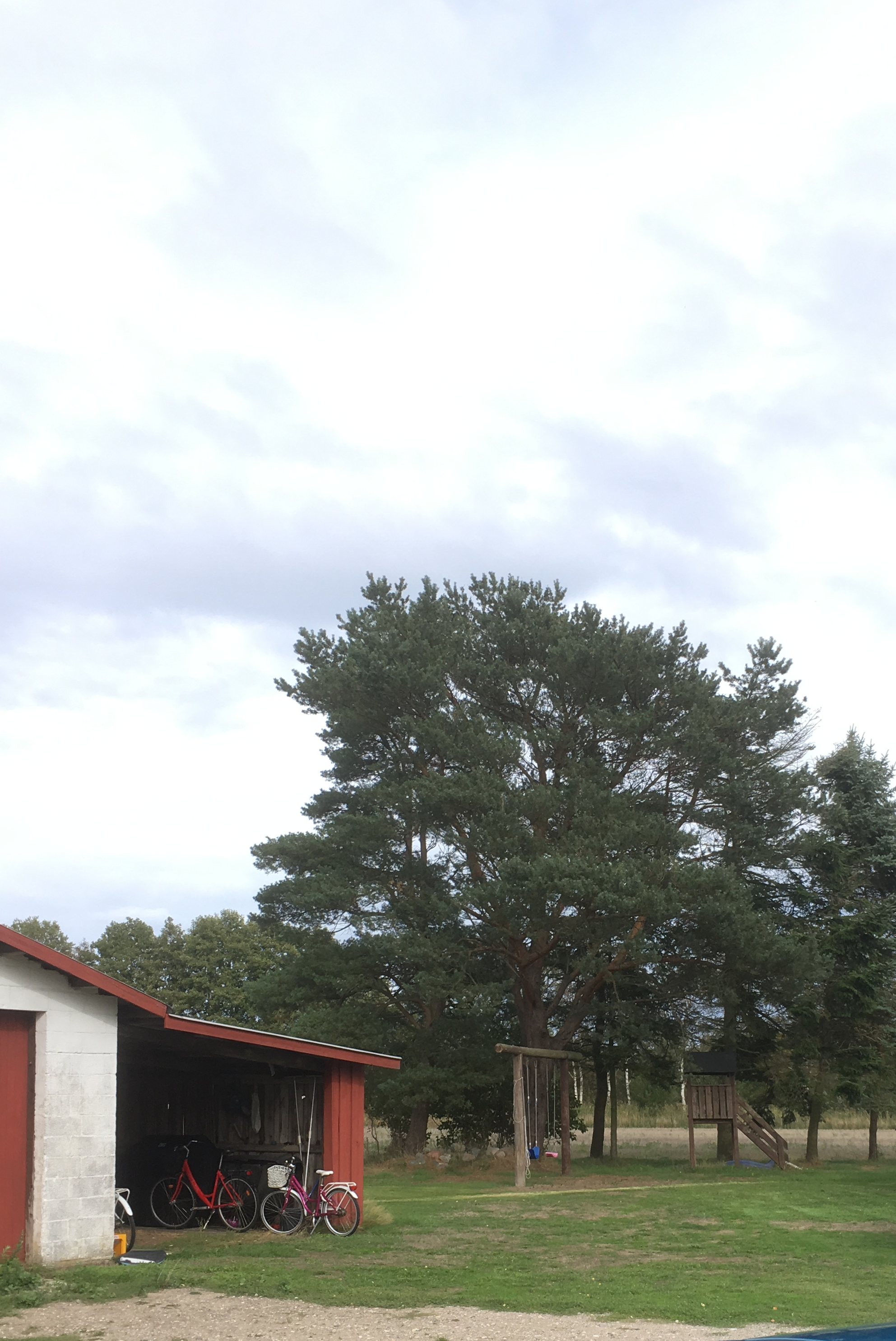 The Bangsbo pine is a Scots pine standing on the isle of Læsø. It is considered to be the last living individual of the original, Danish population of Scots pines.